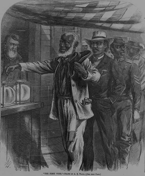 Contemporary print of first black vote in U.S.